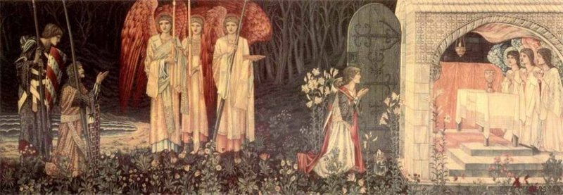 "Vision of the Holy Grail" (1890)